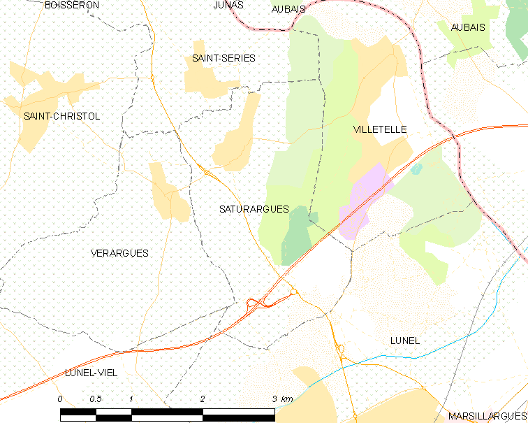 Map commune FR insee code 34294.png - Saturargues